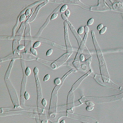 J Scott, personal photo, Paecilomyces variotii from water-damaged hardwood flooring grown in slide culture on Modified Leonian's agar and photographed in Nomarski Differential Interference Contrast microscopy.